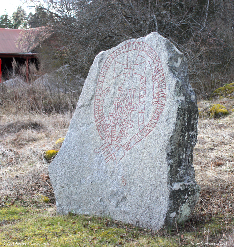 U 1016 Runestone Uppland Sweden